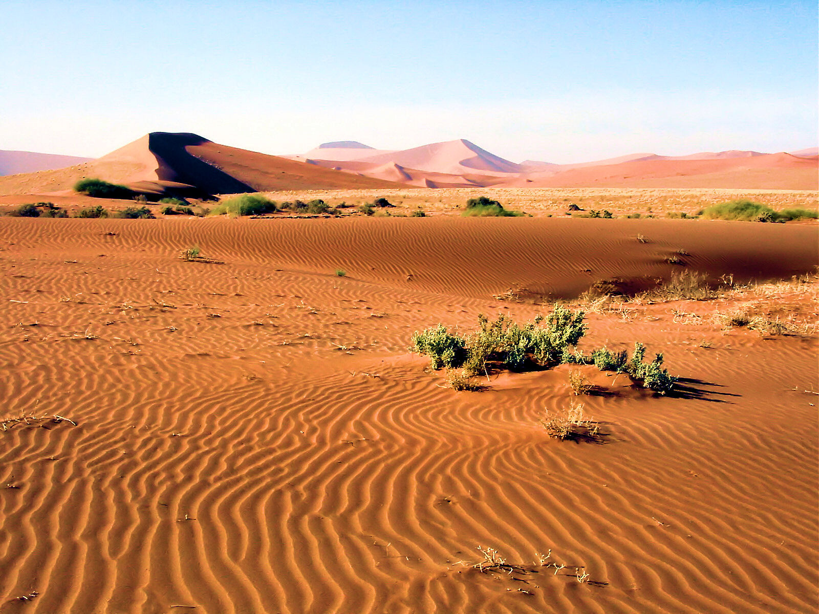 Ancient dunes from the Namib-Naukluft Park in Namibia, Africa. The photo was taken just west of the Sossusvlei car park at 8:46 in the morning of October 2, 2002.